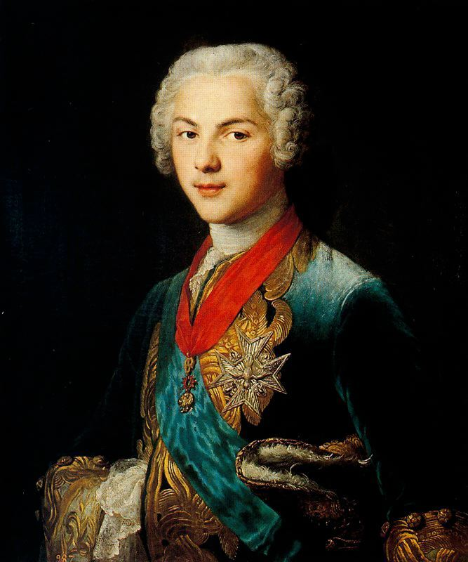 Depicted person: Louis, Dauphin of France (1729–1765), son of Louis XV and Marie Leszczyńska